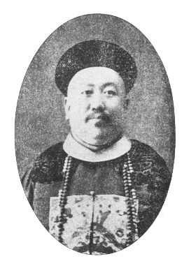 Zengyun